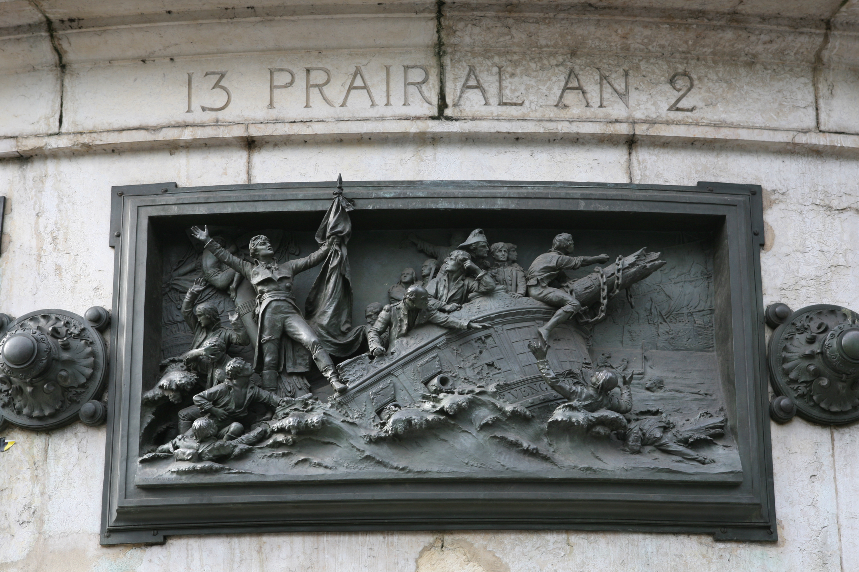 Glorious First of June , The sinking of the Vengeur du Peuple, haut relief by Leopold Morice, Monument to the Republic, Paris, 1883